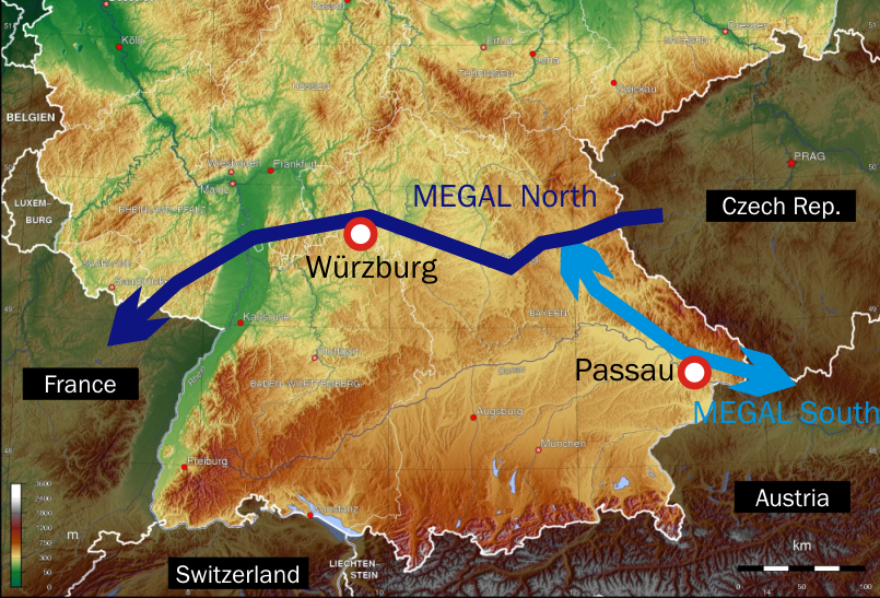 Location map of the MEGAL pipeline in southern Germany.